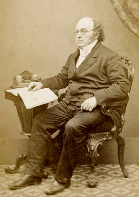 Augustus De Morgan (27 June 1806 – 18 March 1871)